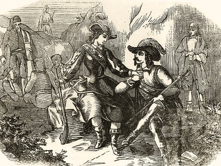 Joan Sala i Ferrer, aka Joan de Serrallonga or Serrallonga, famous catalan bandit (XVI - XVII c.)